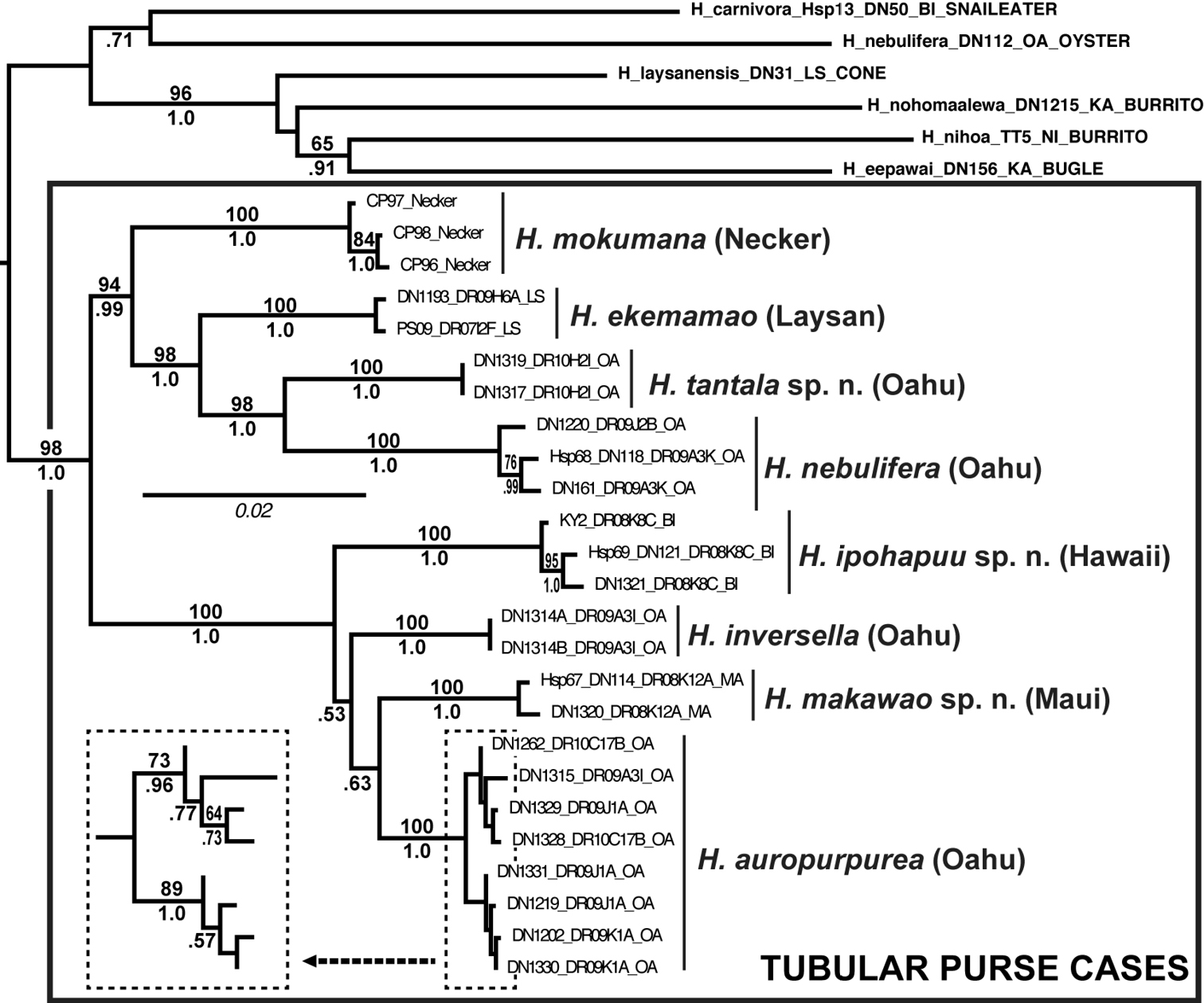 ML phylogeny of tubular purse-cased Hyposmocoma and relatives. Numbers above branches are ML bootstrap values, numbers below are Bayesian posterior probabilities. Scale bar = 0.02 substitutions/site.